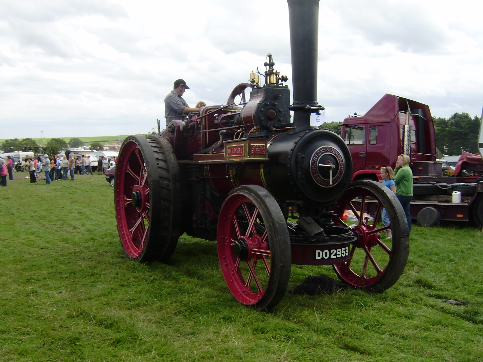 Ruston & Hornsby steam tractor of 1922 sn 115100 at Cromford Steam fair 2008